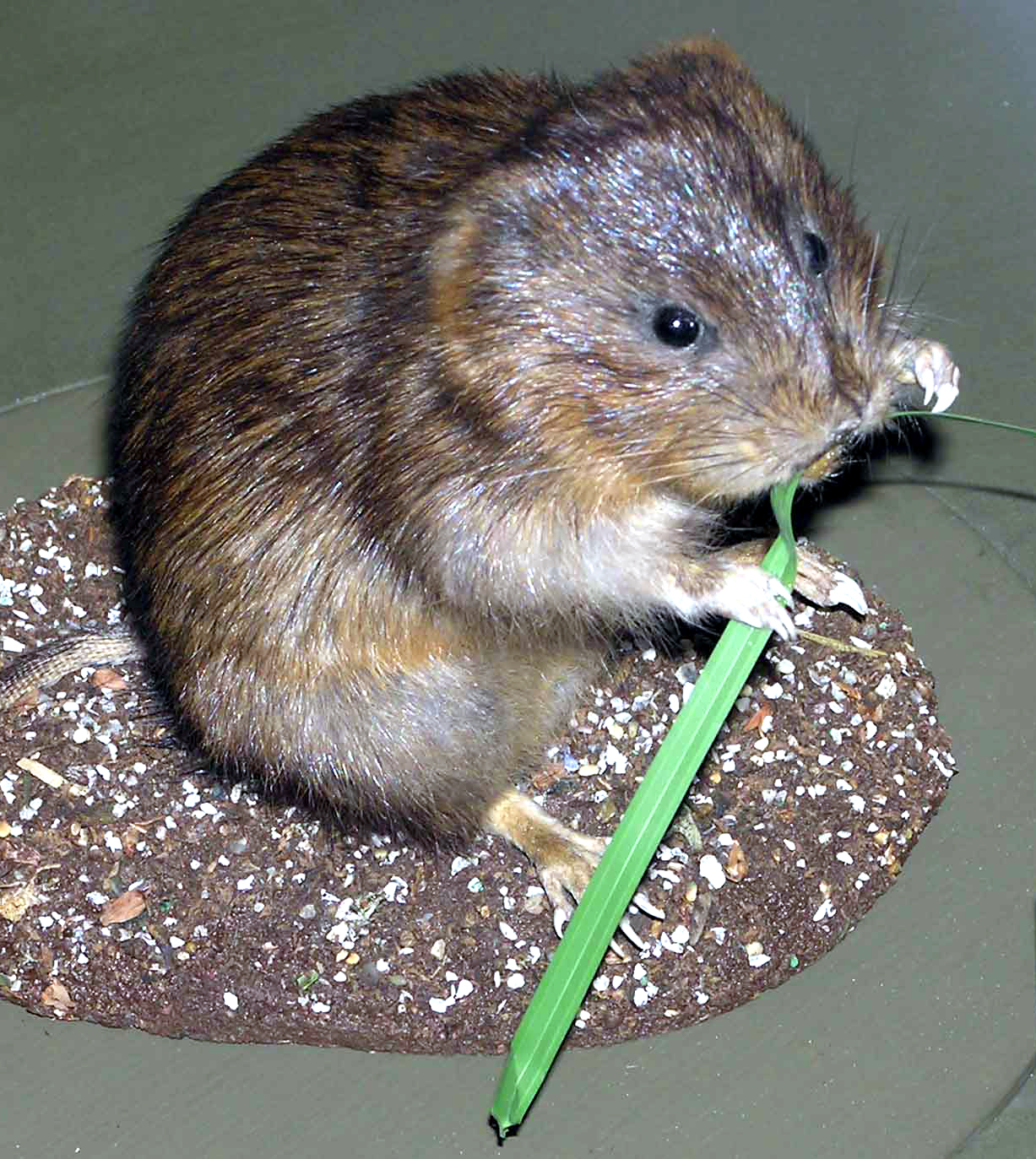 Water Vole Arvicola terrestris (stuffed) in Bristol Museum, Bristol, England.